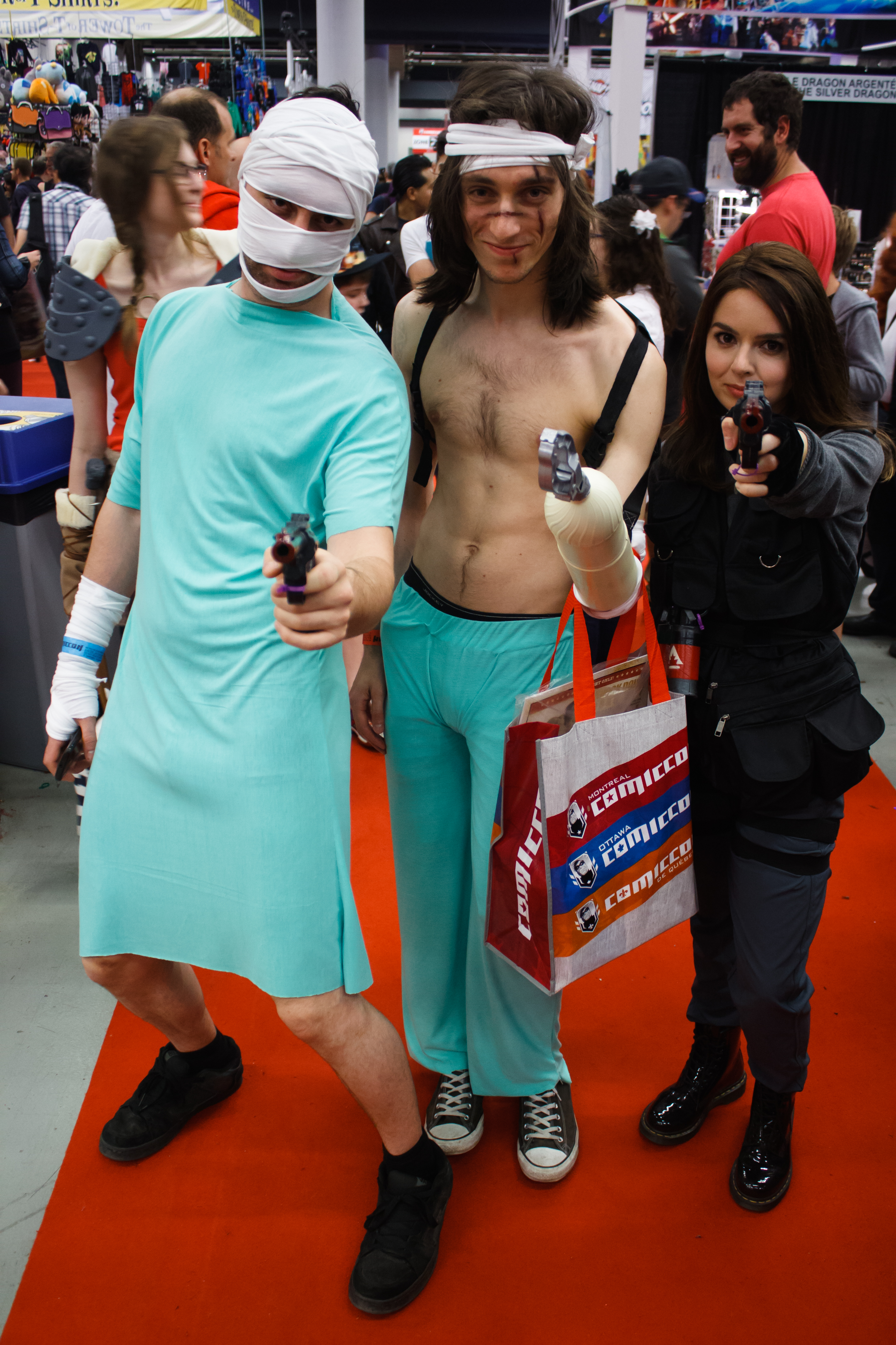 Cosplay on Sunday, day three, of the Montreal Comiccon 2016.